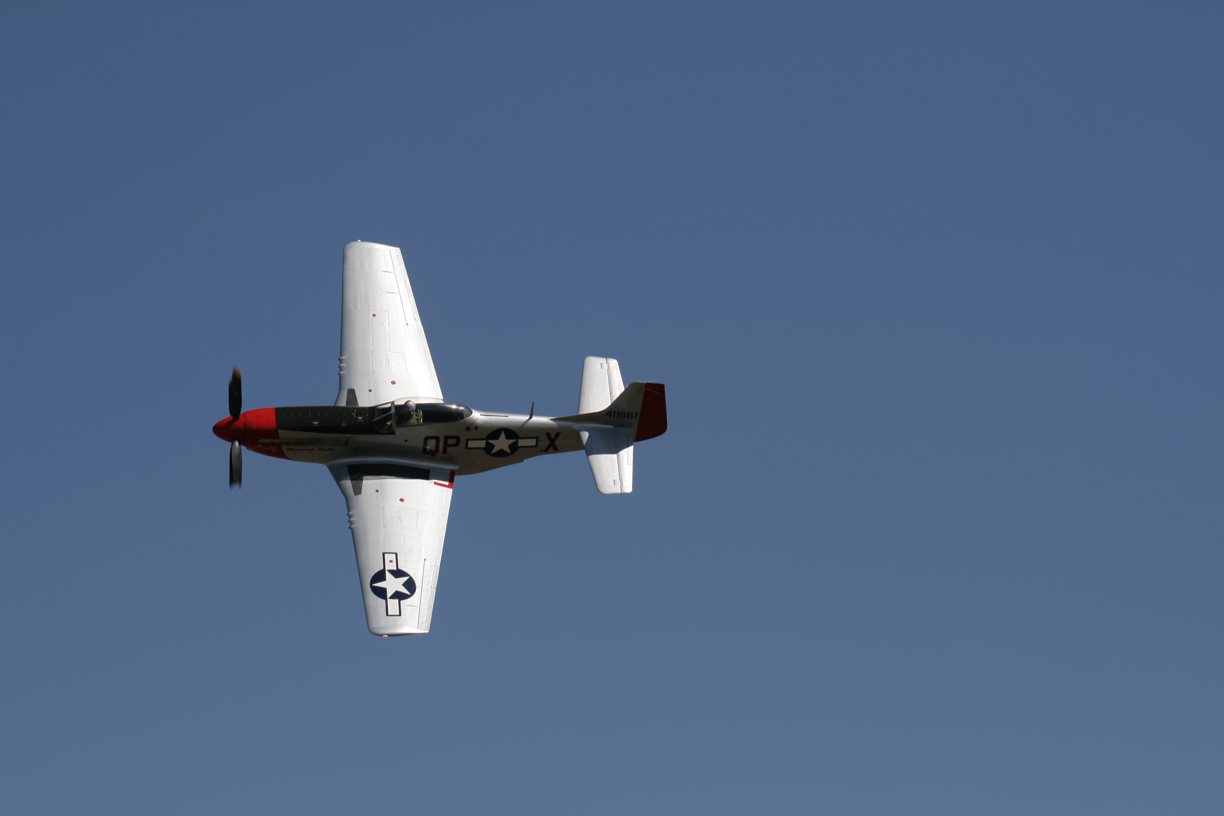 Mustang Sally, an ex Korean War North American P-51 Mustang